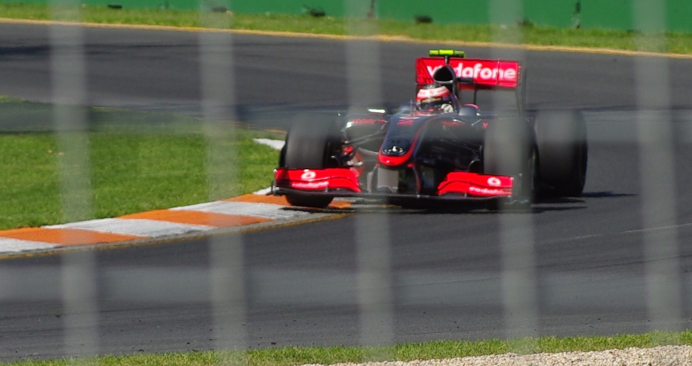 Heikki Kovalainen at 2009 Australian Grand Prix, Melbourne, Australia